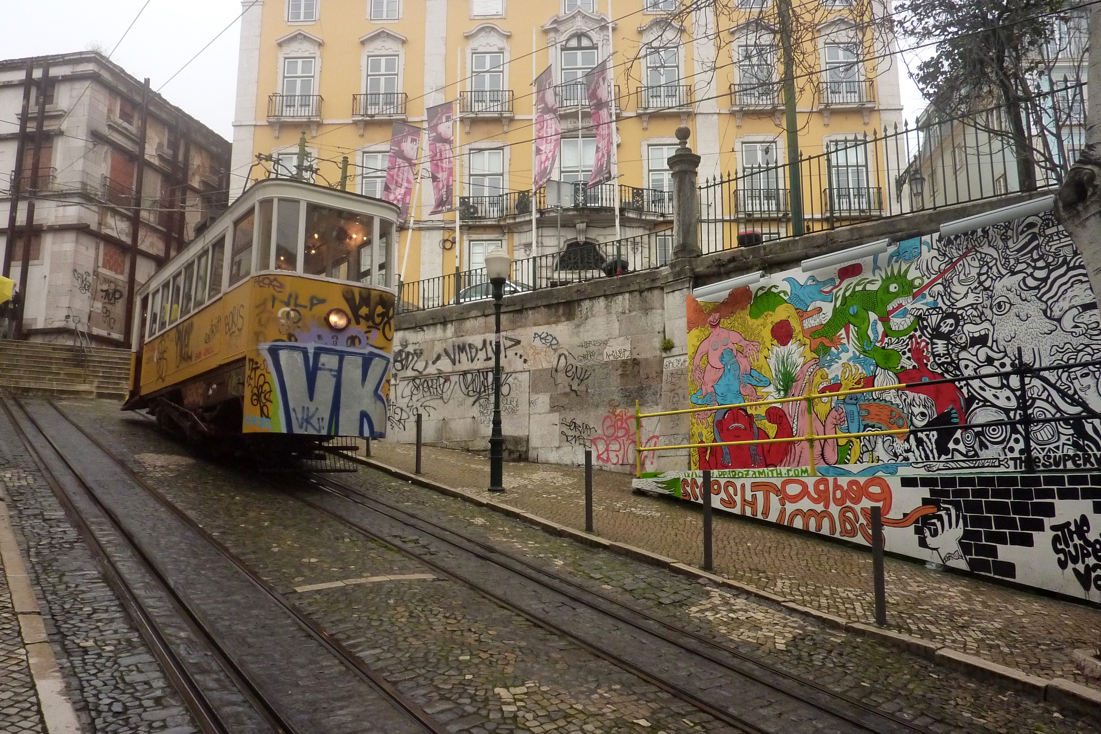 Portugal, Lisbon - elevator tram